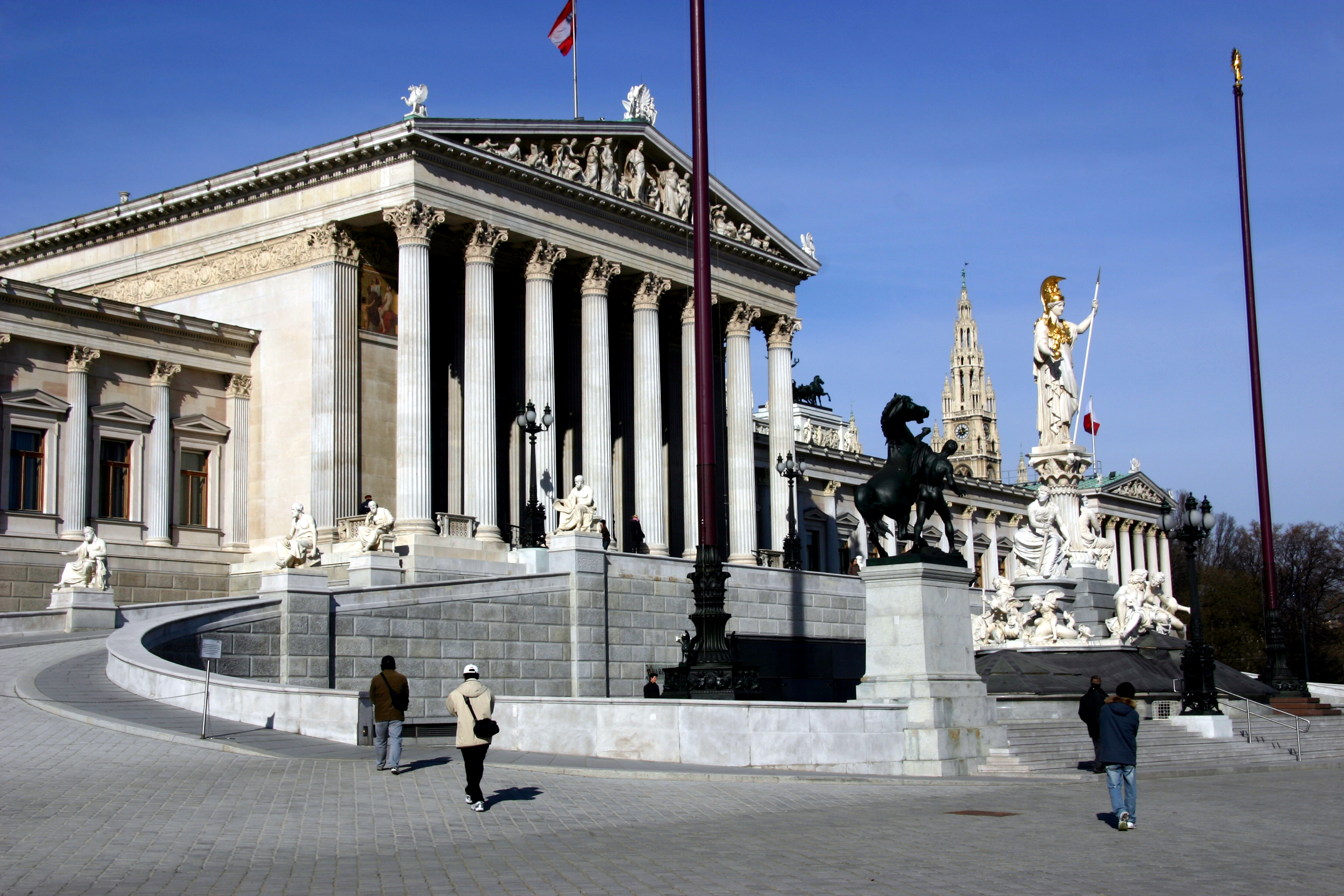 Austrian Parliament Building